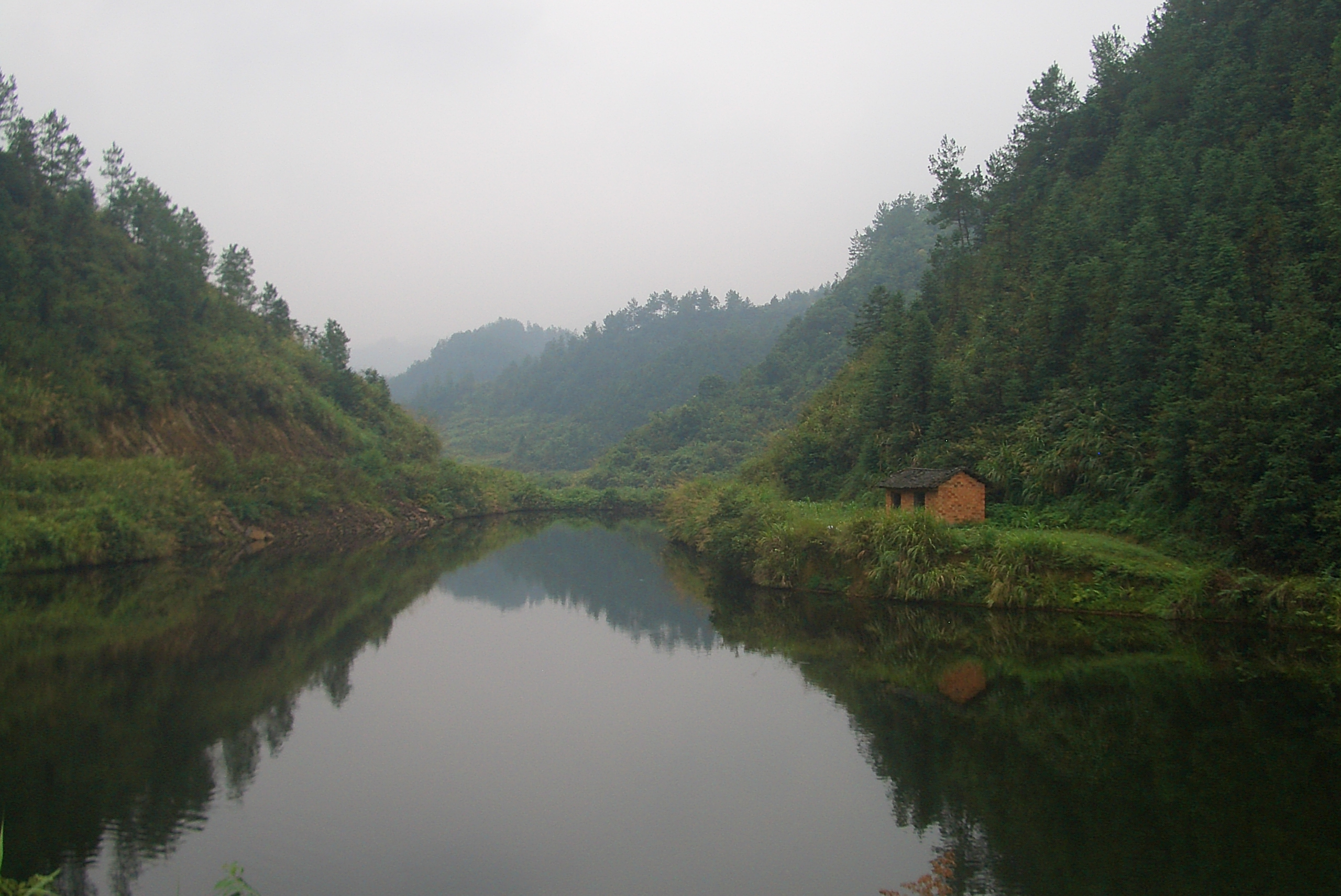 A pond by the side of G106 in Tongshan County (Hubei), a few km east of Hengshitan Zhen (横石潭镇) and the junction for the Jiugong Mt road.